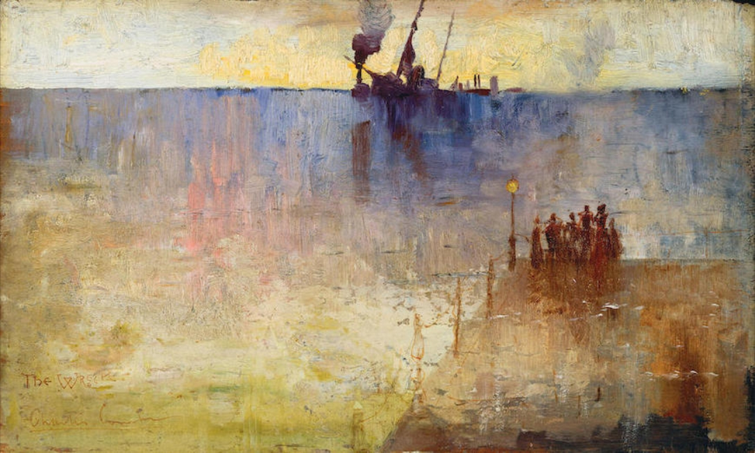 The Wreck, oil on wood panel, 19.5 x 33.0cm (7 11/16 x 13in).